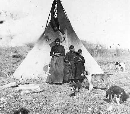 Beaver (Dunneza) women and children in front of their tipi.